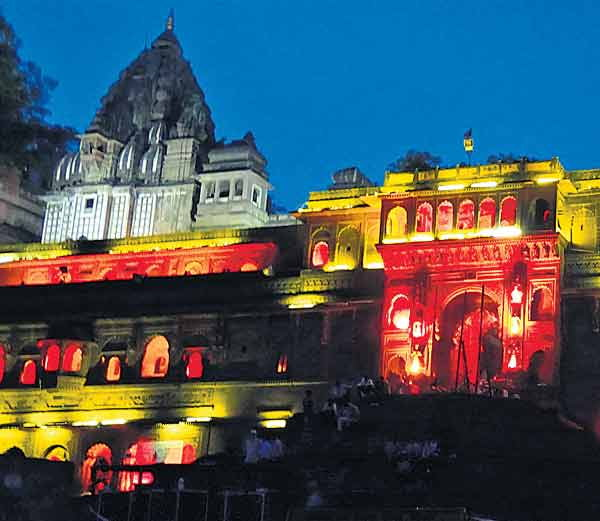 Nimaad Utsav